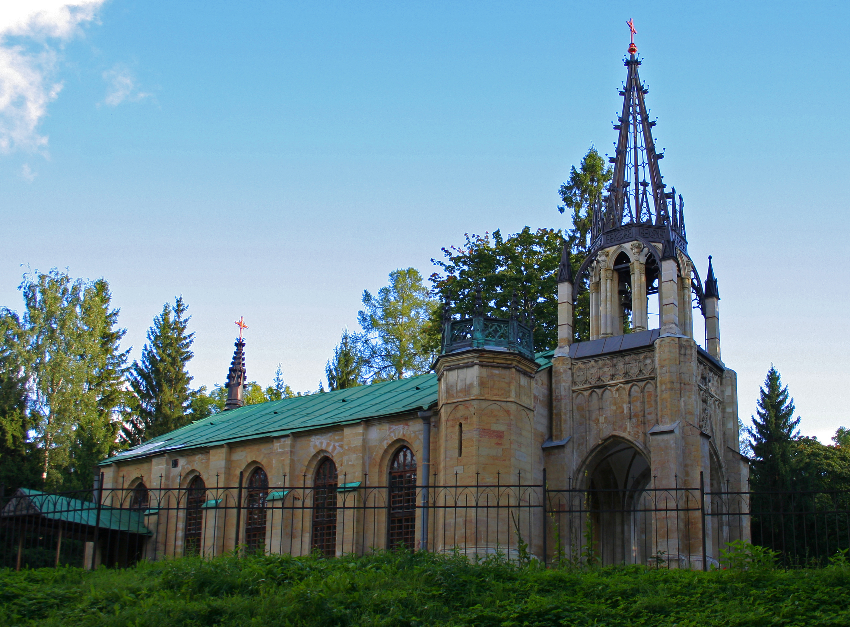 Saint Petersburg, Peter and Paul church in the Shuvalov park.